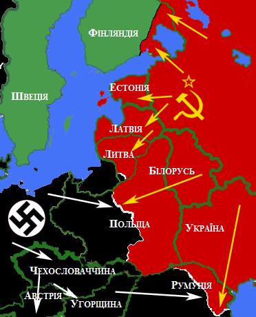 Map depicting most of Central and Eastern Europe, showing 1938 borders, along with Axis (black) and Soviet (red) military and political advances until late 1940. Modification from File:Nazi-Soviet 1941.png Original author: Mosedschurte, modified by User:Lystopad